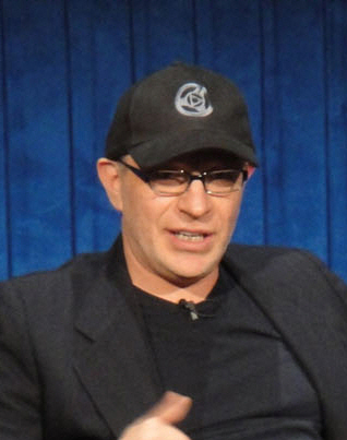 Akiva Goldsman at FRINGE On Stage at the Paley Center